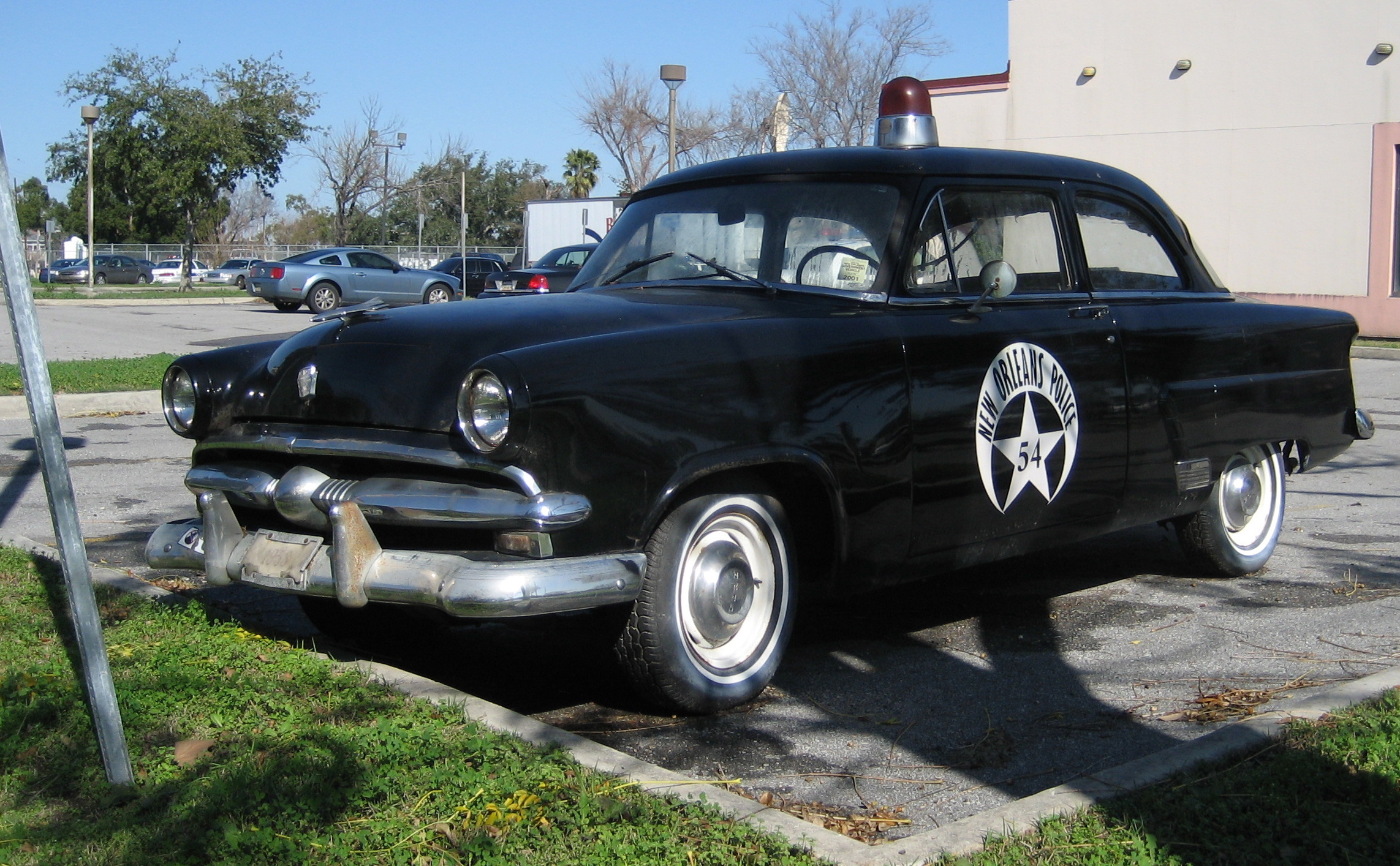 1953 Ford Mainline New Orleans police car (Mid City, on the narrow strip of high ground along City Park/Metarie Road that escaped major flooding after Katrina)